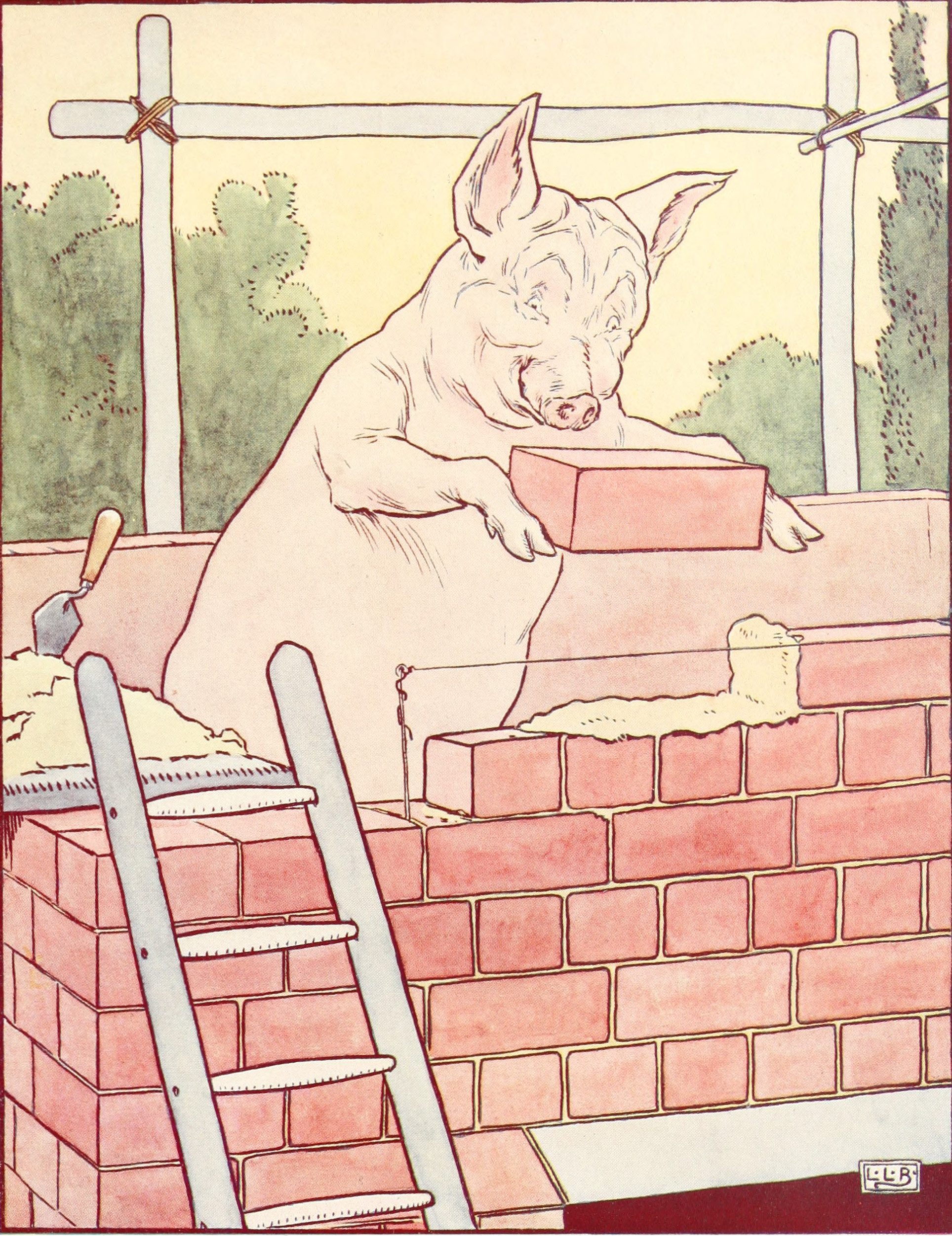 Three Little Pigs - third pig builds a house - Project Gutenberg eText 15661